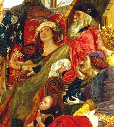 Detail of Ford Madox Brown's painting of Chaucer reading to the court of King Edward III, depicting Alice Perrers and Edward III